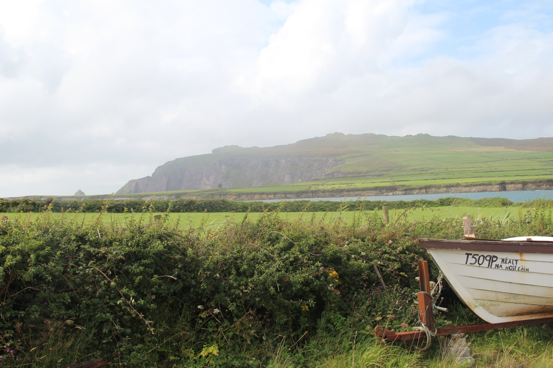 Ard na Caithne, Ciarraí